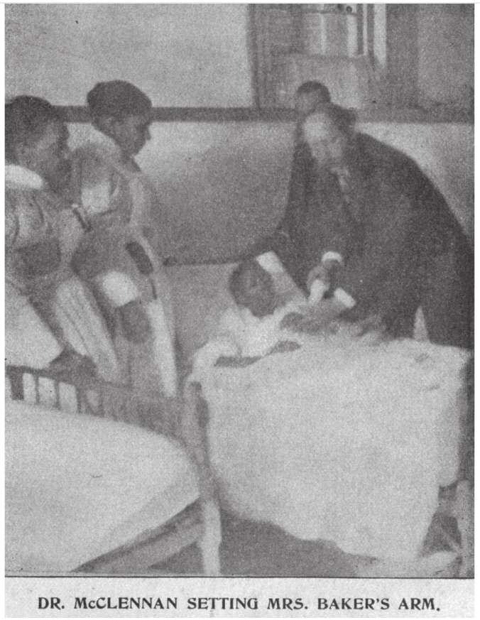 Scanned from a reproduction of the cover of a 1899 pamphlet by Reverend James Dart printed in True Stories of Black South Carolina.